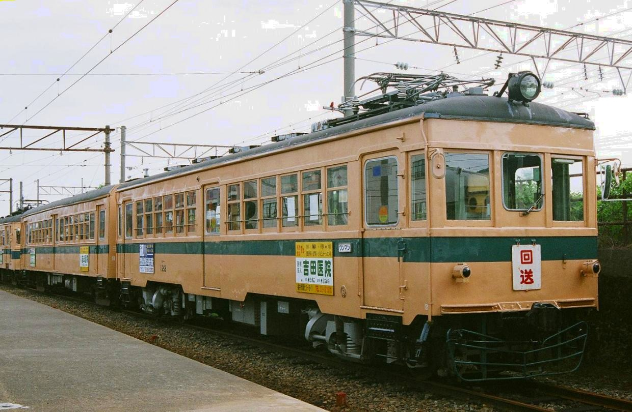 Fukui-Railway Type Moha122 Train(Japan). This train became a disused car in 2006. It takes a picture from the home at Takehushin Station. 福井鉄道120形電車のモハ122。 2006年に廃車となる。 武生新駅にてホームより撮影。